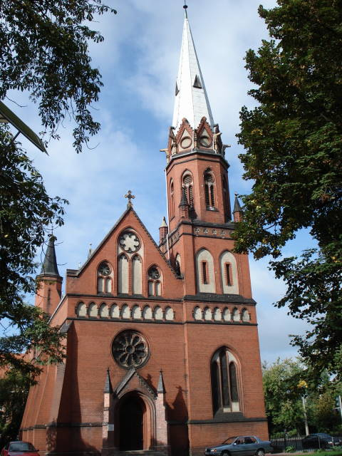 Evangelical Augsburg St. Stephen Church in Toruń (formerly Evangelical-Reformed), 1902-1904, design of Richard Gans